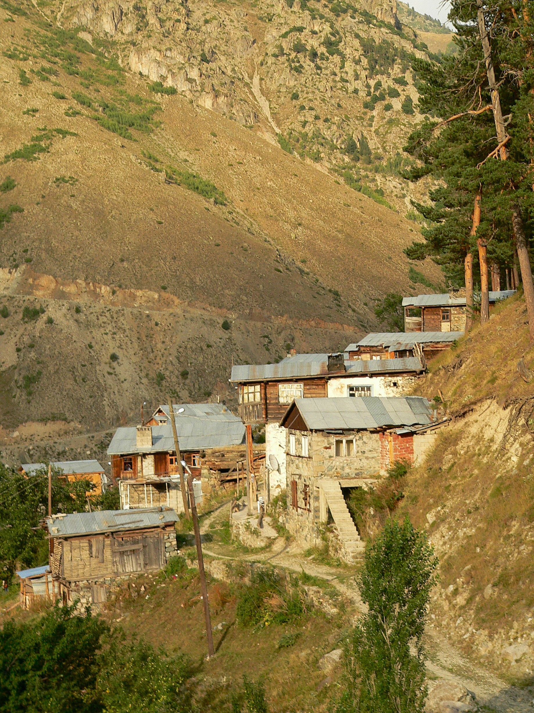 A village of Yaylalar located in Kackar mountains, Turkey